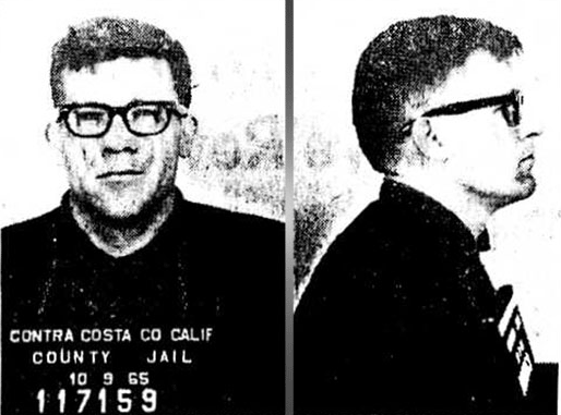 Zodiac killer top suspect's mugshot in Conta Costra county jail.